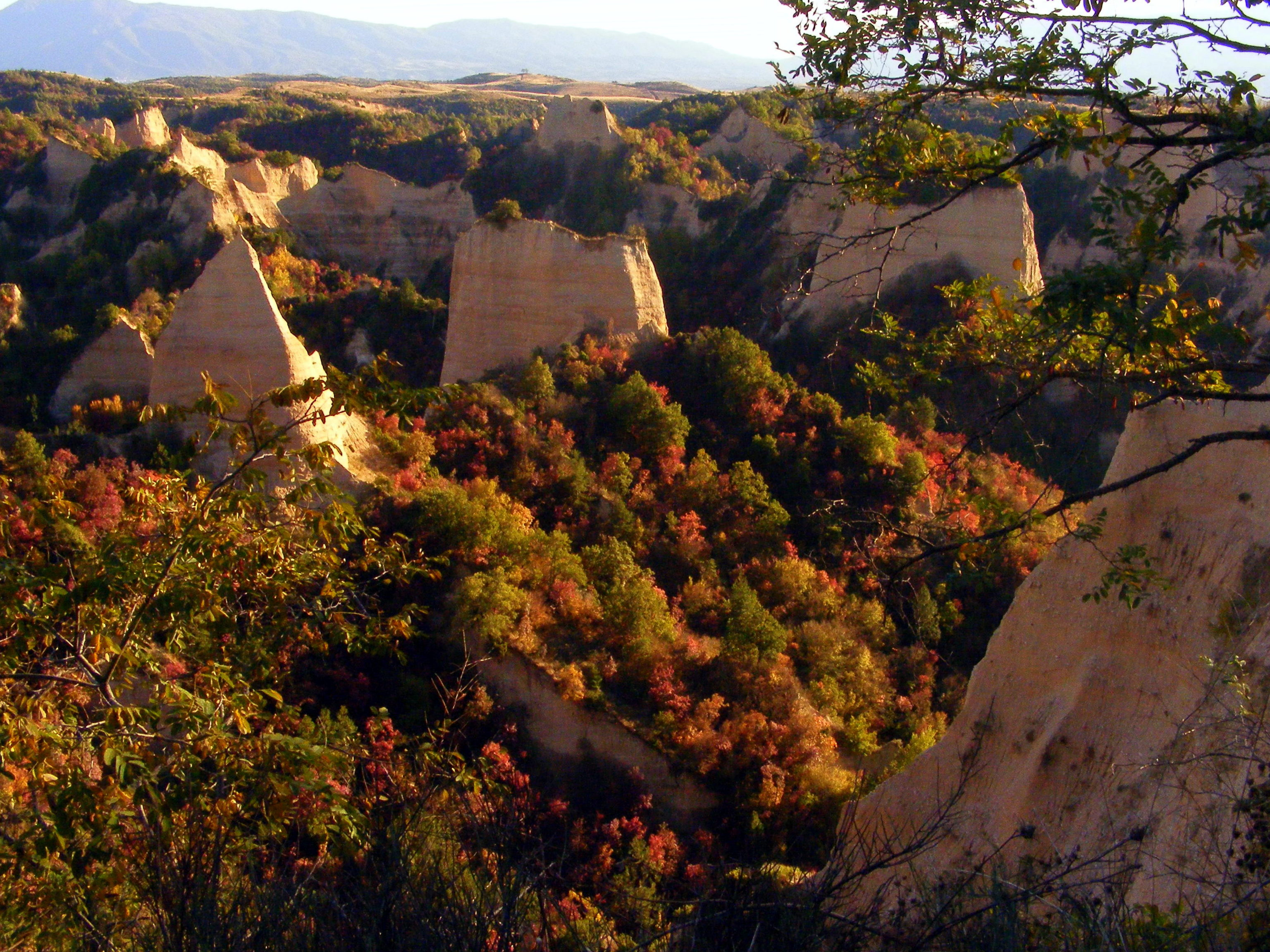 Melnik Pyramids, Bulgaria